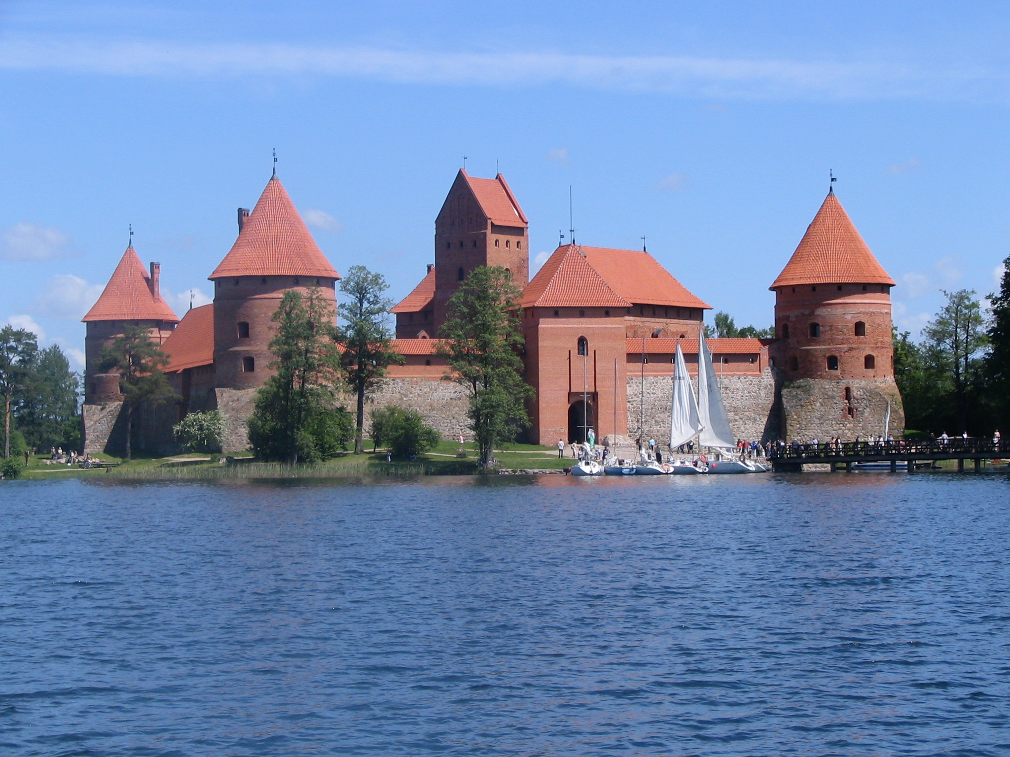 Closeup of the castleCloseup of the castle